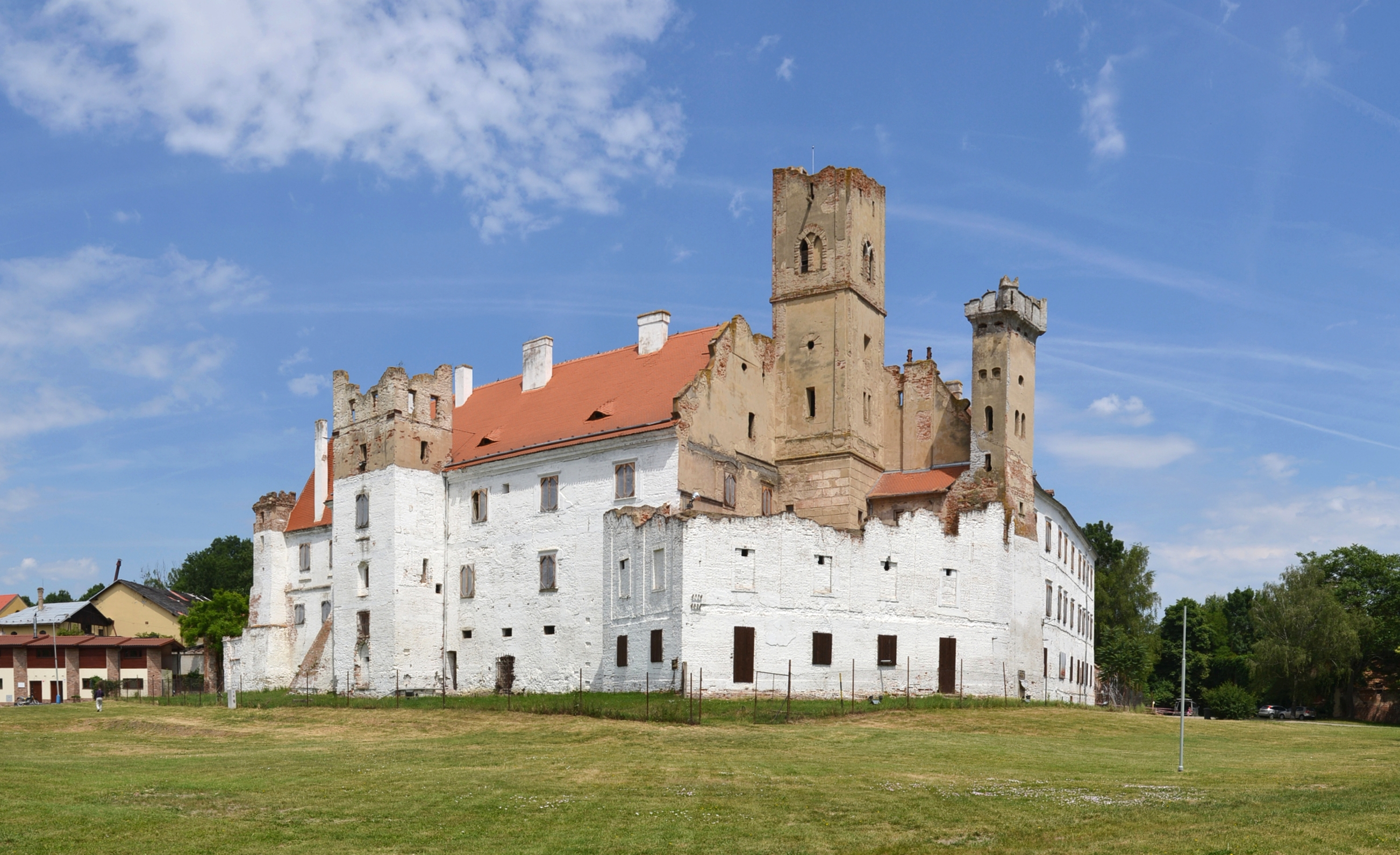 Castle in Břeclav (Lundenburg), Moravia